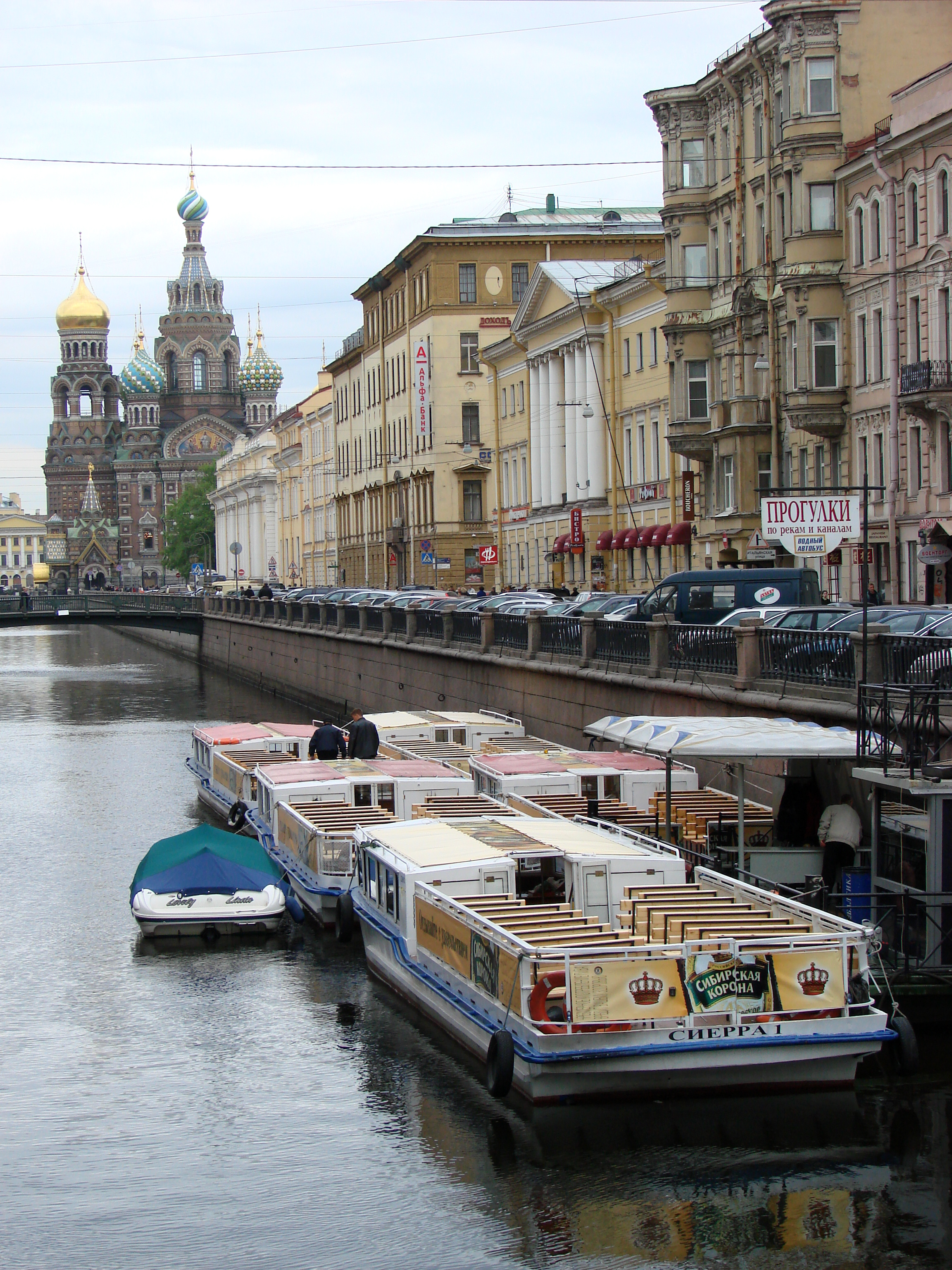 A canal scene in St. Petersburg, Russia. Church of the Resurrection of Christ is in the distance. May 2008.